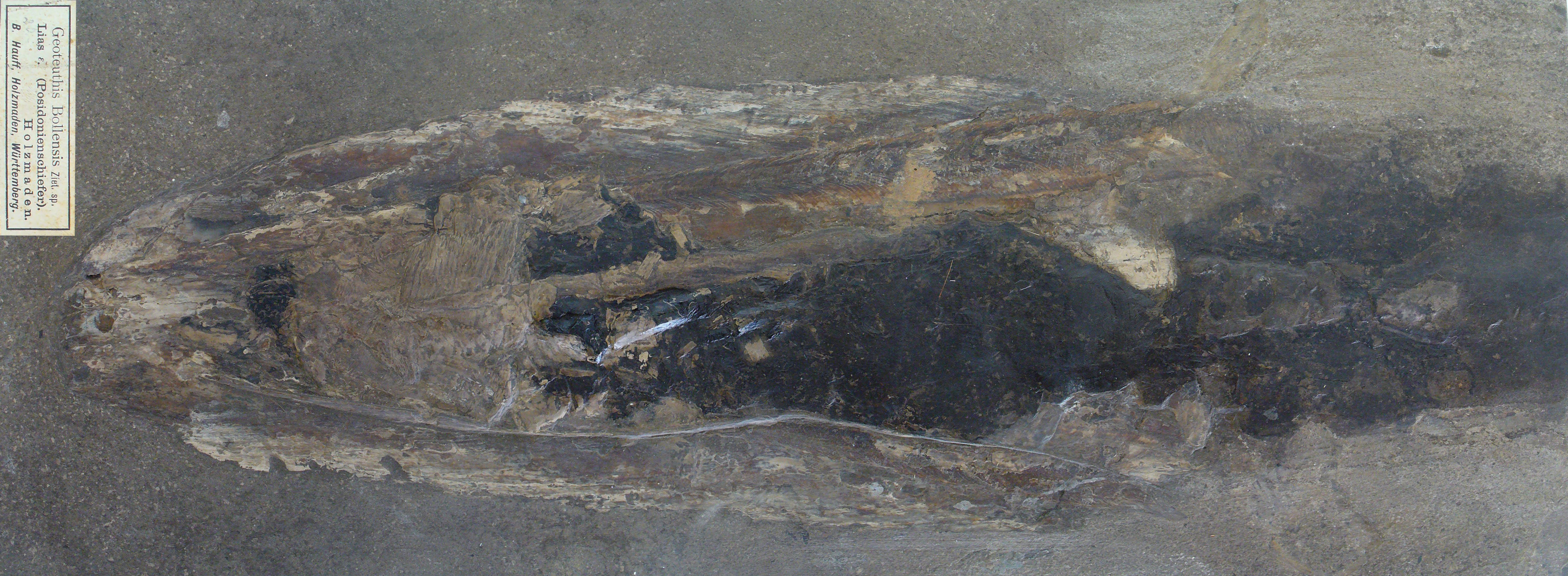 Loligosepia aalensis (jr synonym Geoteuthis bollensis), Loligosepiidae, with preserved inc sac in which the pigment eumelanin is still present; Lower Jurassic, Toarcium, Holzmaden, Germany; Staatliches Museum für Naturkunde Karlsruhe, Germany.